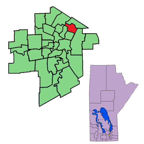 The 1999-2011 boundaries for the Rossmere electoral district highlighted in red